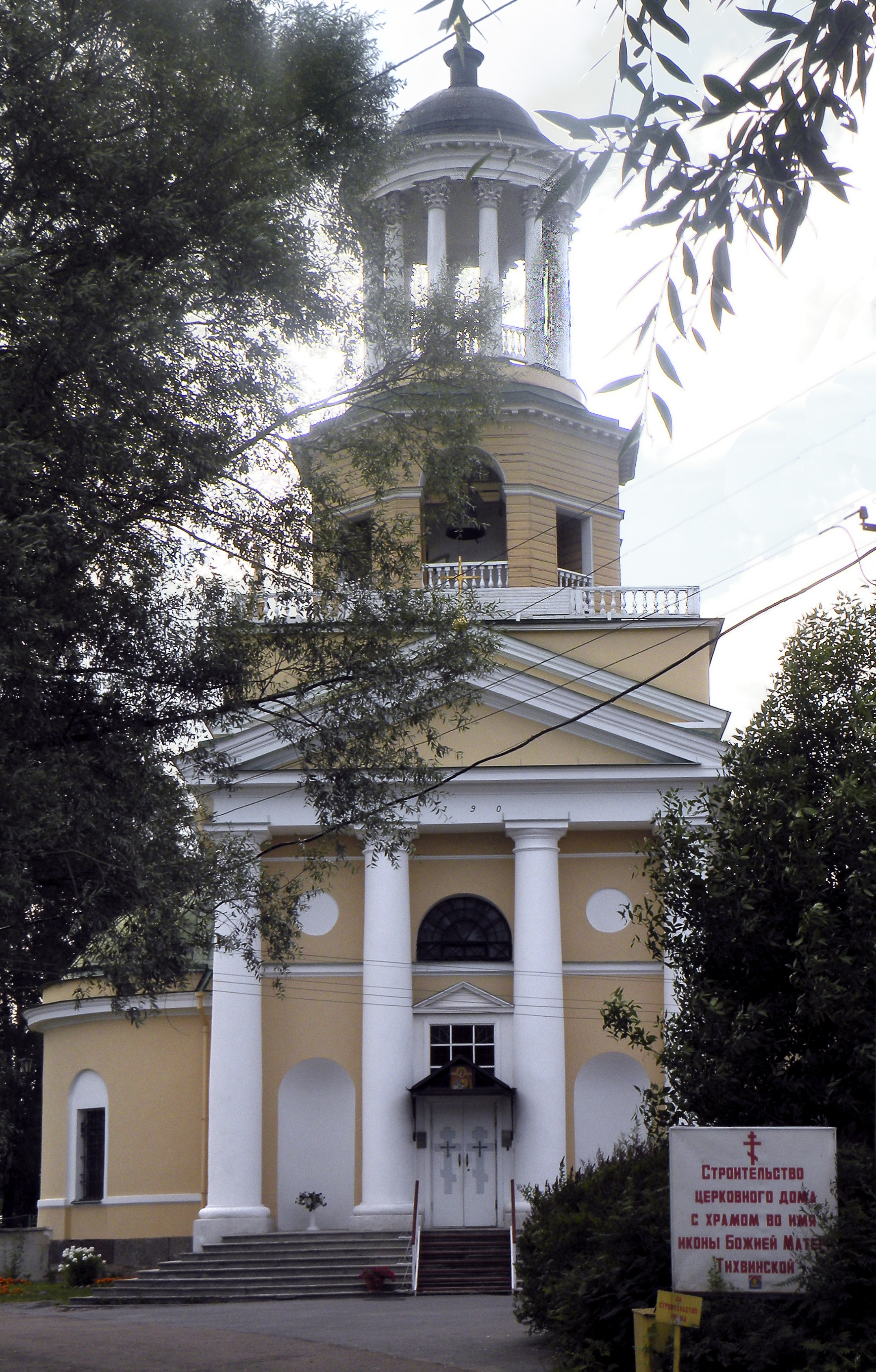 St.Catherine's churche in Murino town near St. Petersburg, Russia